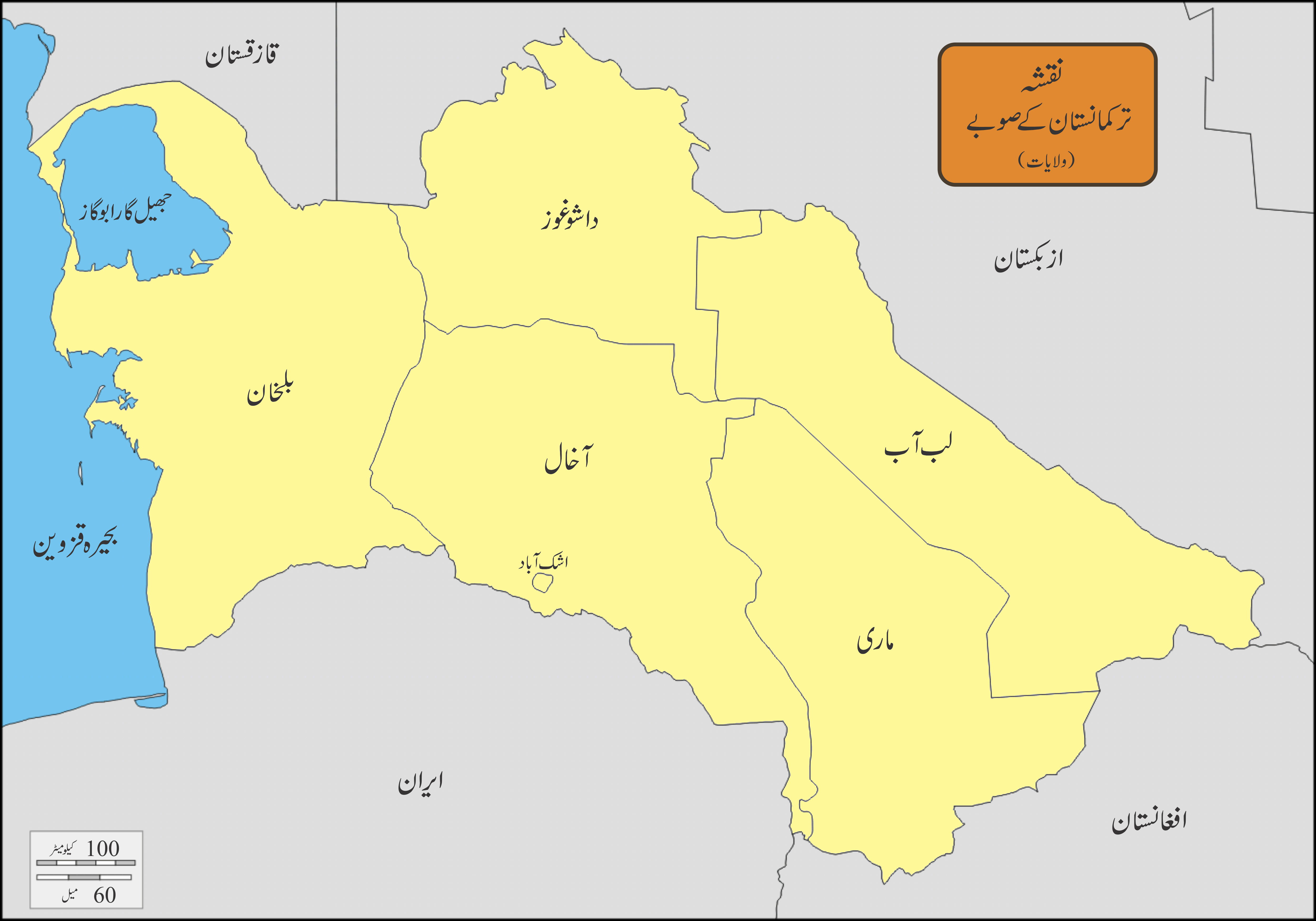 Turkmenistan Provinces Urdu